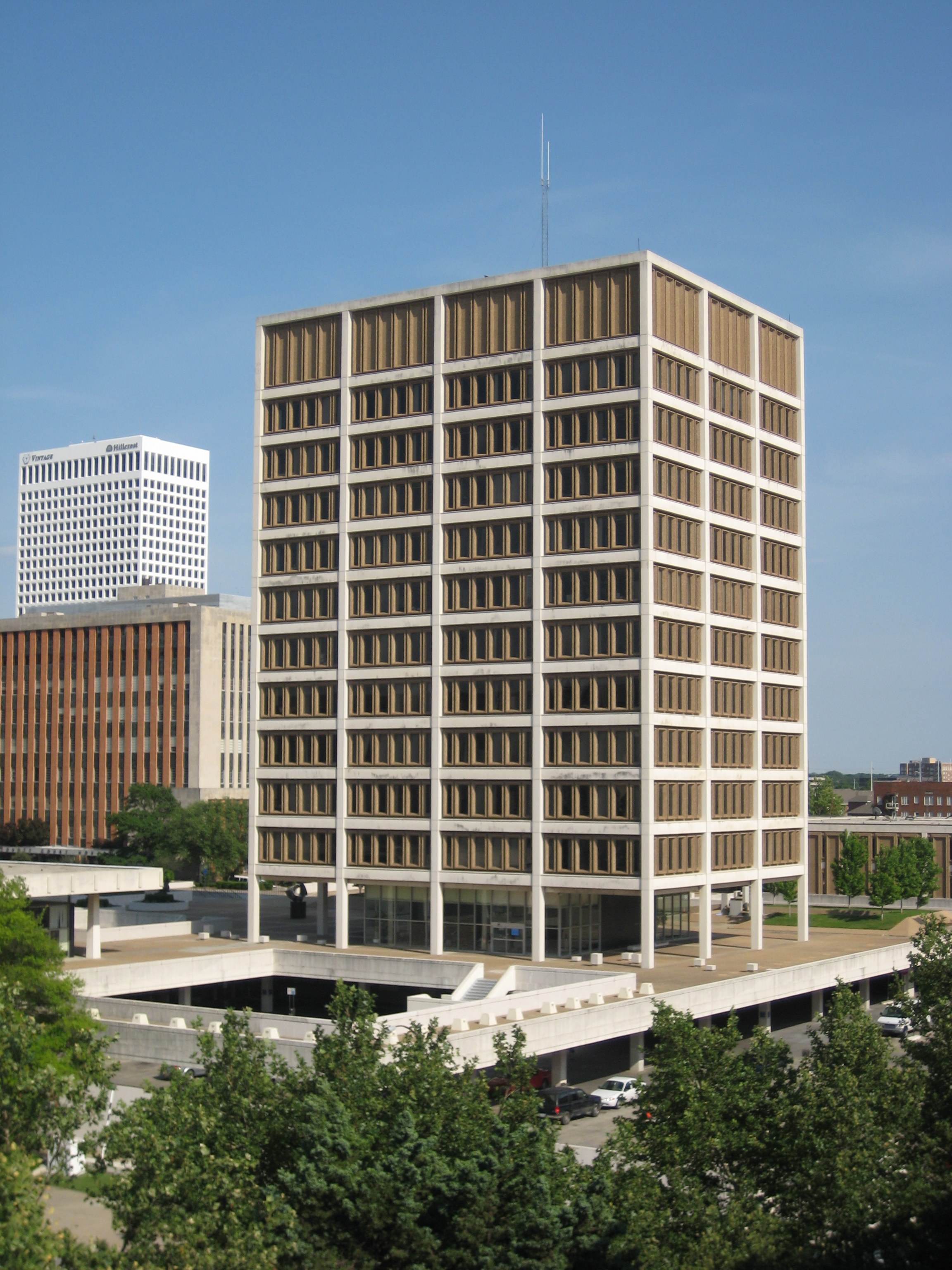 City Hall in Tulsa, Oklahoma